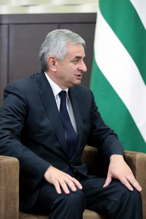 Raul Khajimba.